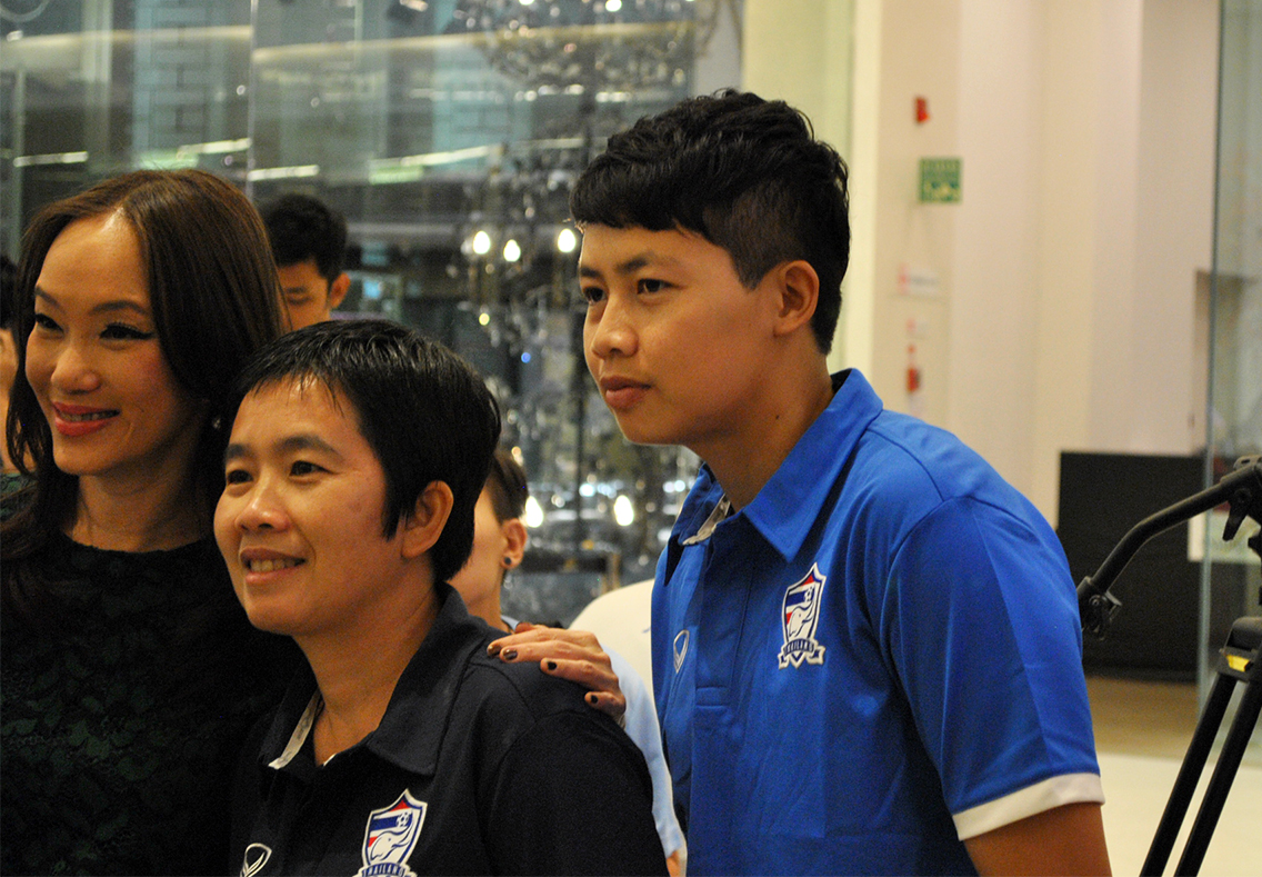 Nuengruethai & Waraporn